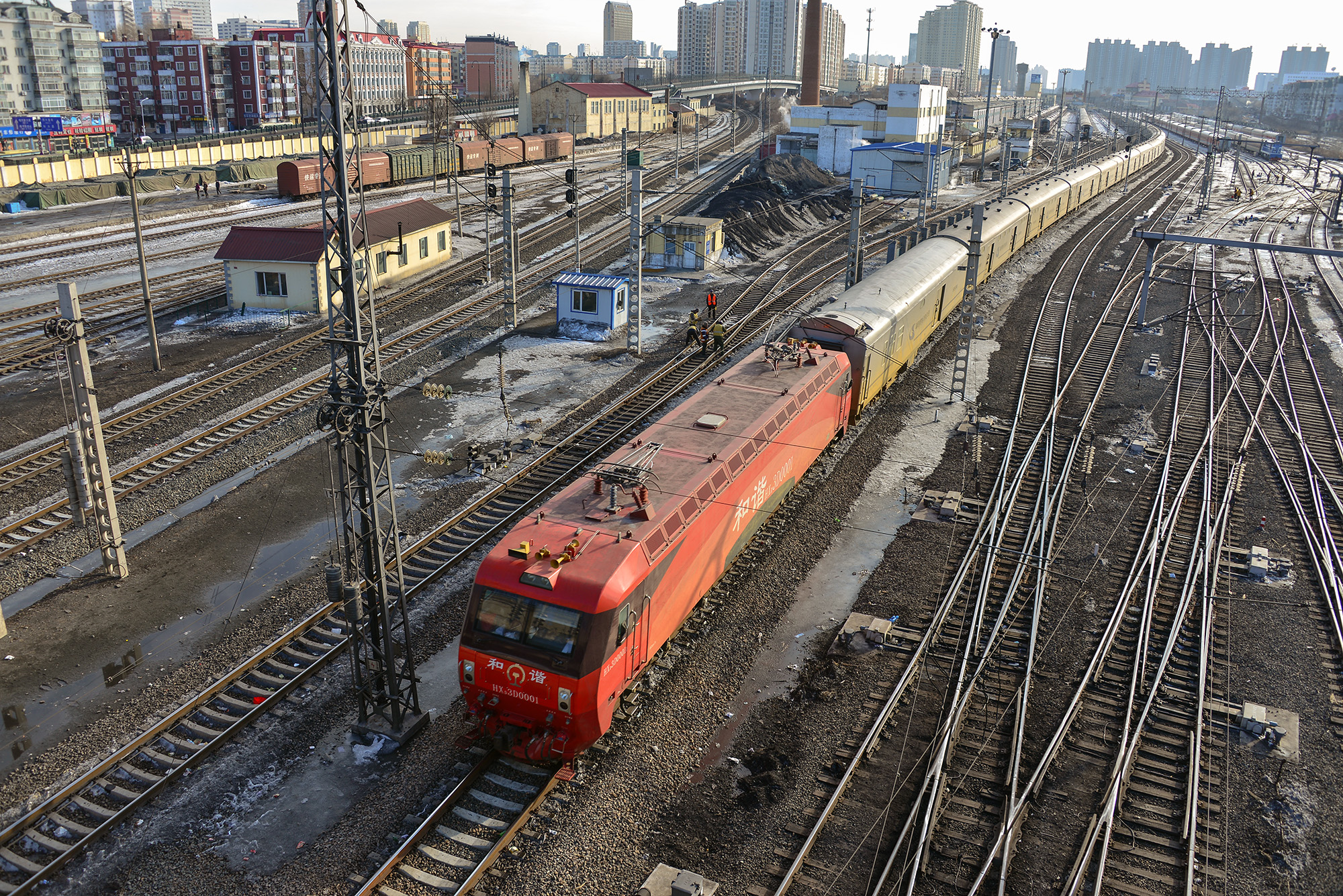 X105 tracted by HXD3D